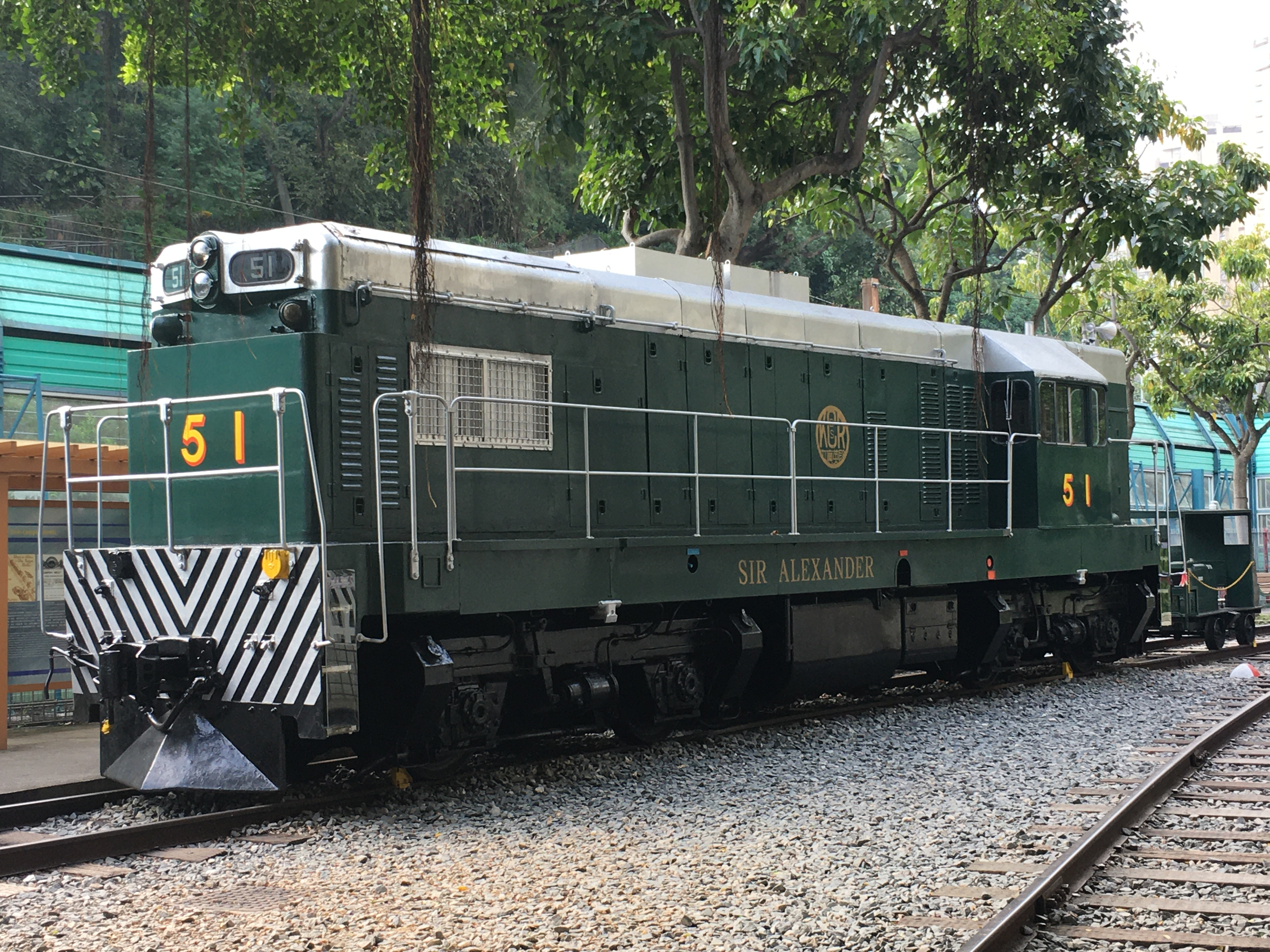 中文（香港）: This photo is taken in Tai Po.